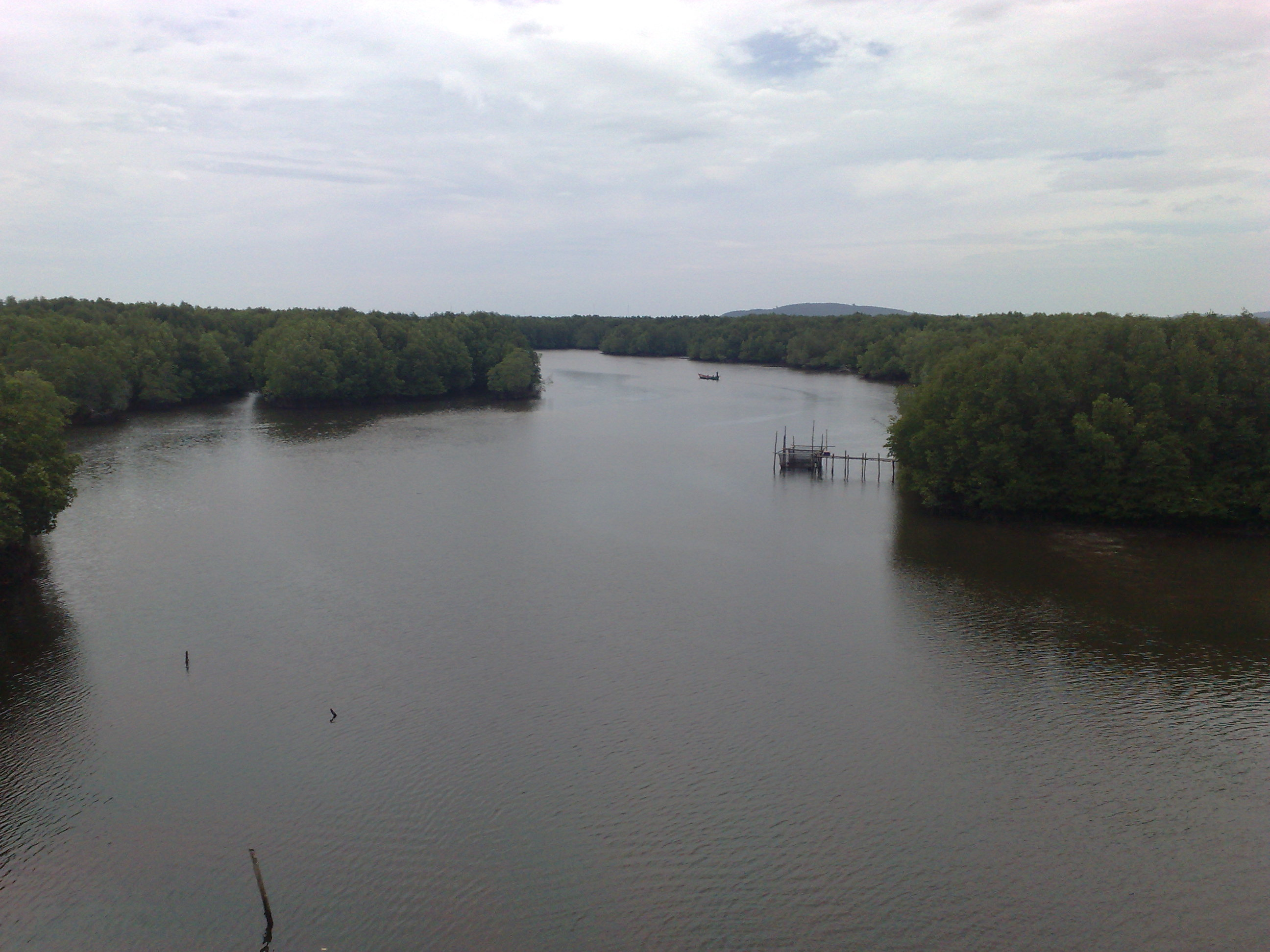 A river at Peam Krasop Wildlife Sanctuary. Tourists can pay around 40,000 riel (US$10) to have a local take them around the waters via motorized boat.